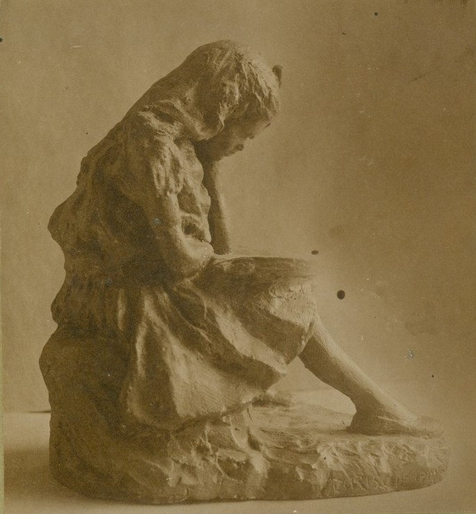 Identifier: A1621-00519 Date: 1906-07 Decade: 1900-1909 Creator: Risque, Caroline, 1883-1952 Types: Serial , Page Subjects: Photography , Women , Sculpture , Art , Artists Rights: NO COPYRIGHT - UNITED STATES Permalink: Description: "Bronze Sketch of a Child (from Life)," sculpture by Caroline Risque with photographs by Williamina Parrish